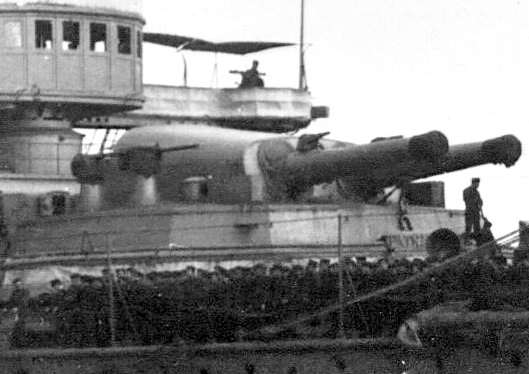 Photograph clip showing twin 13.5 inch guns on barbette mounting, on Italian battleship Sicilia.